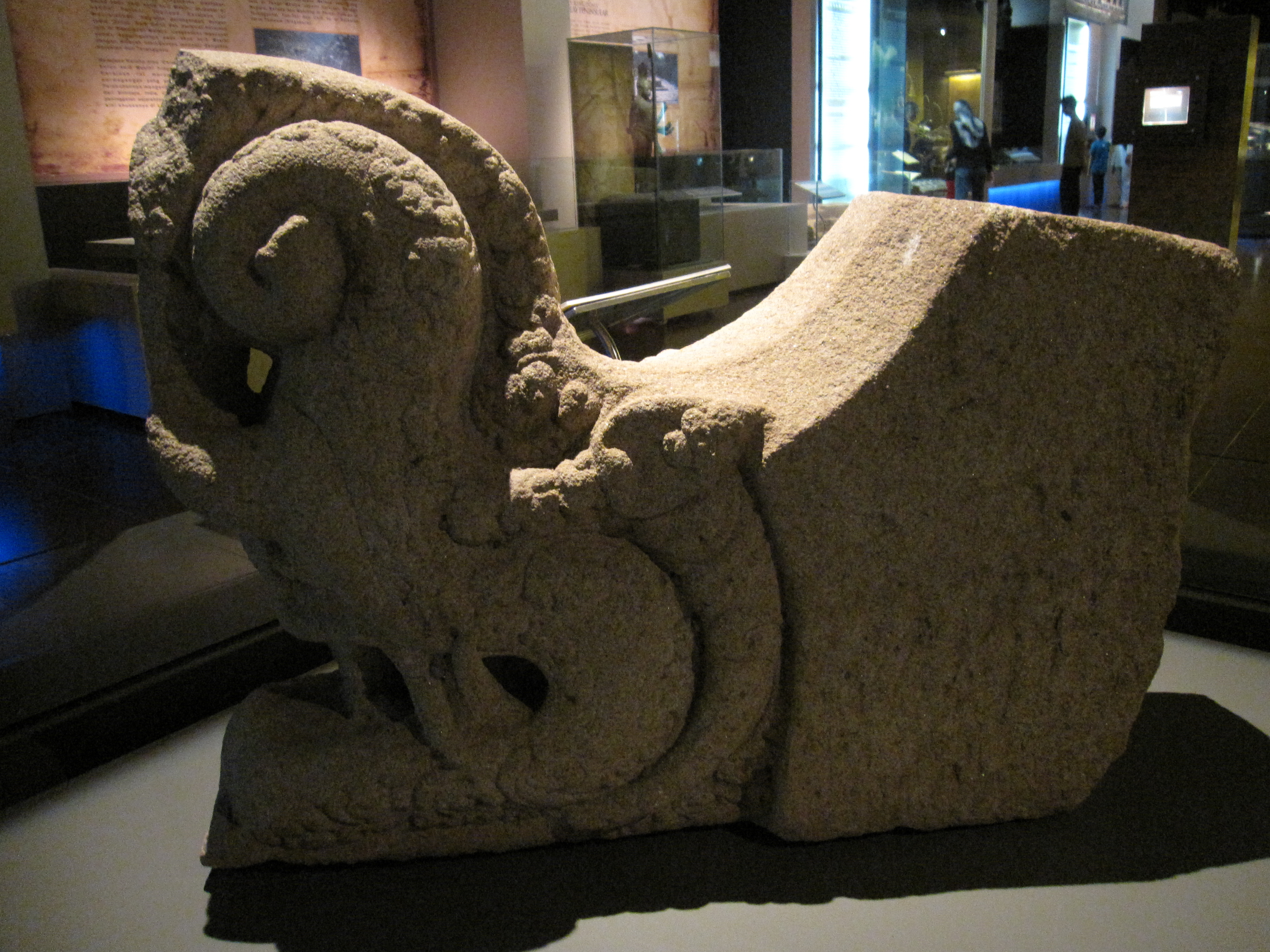 The makara is a symbolic cohesion of the elemtens of the two creatures which possessed special qualities. The makara exhibited here is in the form of an elephant and a fish, the symbols of powerful animals, both on land and sea which is carved from a large boulder. In the olden days ,the makara (usually in pairs) were used as decorations located at the main entrance of a building, such as a candi. This makara was found at Kampung Sungai Emas, Kuala Muda, believed to be from the 7th century CE.